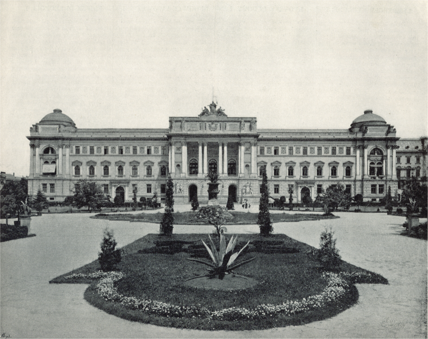 Diet of Galicia and Lodomeria in Lwov, constructed during the Austro-Hungarian reign. After World War I it was turned into the building of Lviv University.